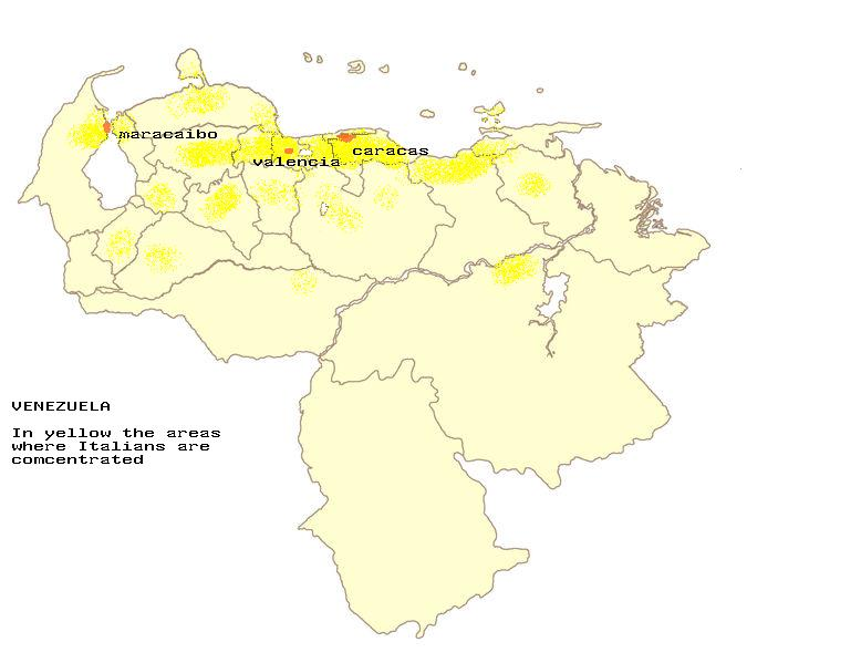 Map showing (in yellow) the areas of Venezuela where Italians are concentrated. The original map (Image:Venezuela-capital.jpg) is from Commons, with Public Domain. Are highlighted the three main cities of Venezuela (Caracas, Maracaibo and Valencia) where 66% of the Italian community is resident.